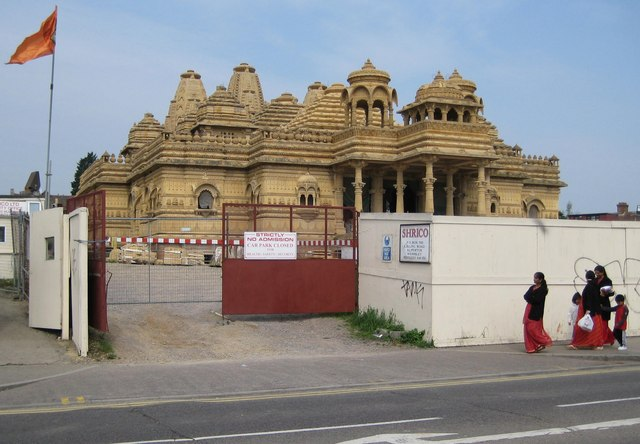 Alperton: Shree Sanatan Hindu Mandir This Hindu Mandir or temple is under construction on the west side of Ealing Road. The temple is being constructed of carved stonework imported from India and no metal has been used at all. Progress since Danny's 135532 can be seen. The temple was the site of controversy some time ago when it was alleged that stonemasons recruited in India to work on the site in Alperton were paid very low wages. The Independent's report on this is here